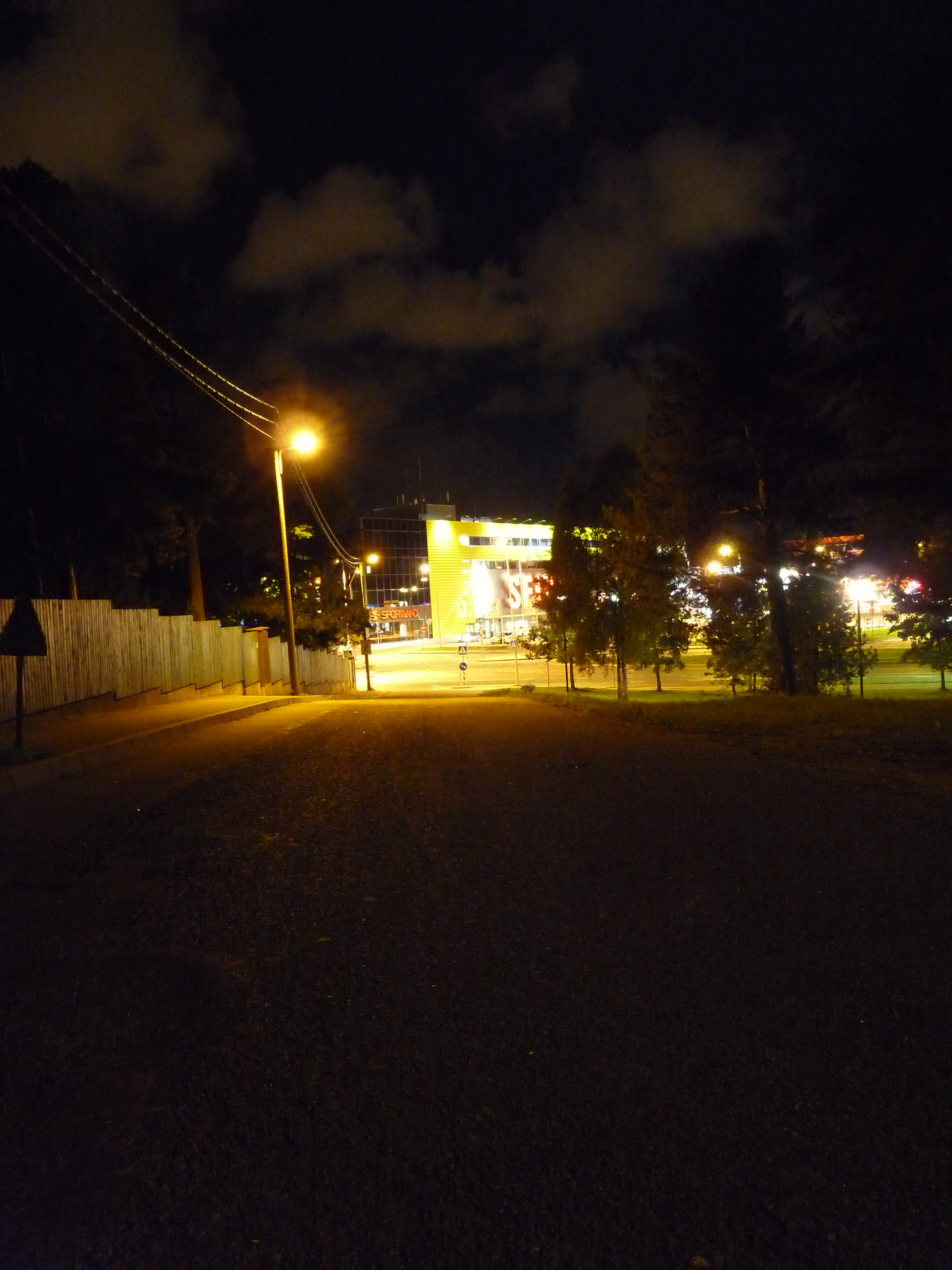 Rulli street in Tallinn, Estonia